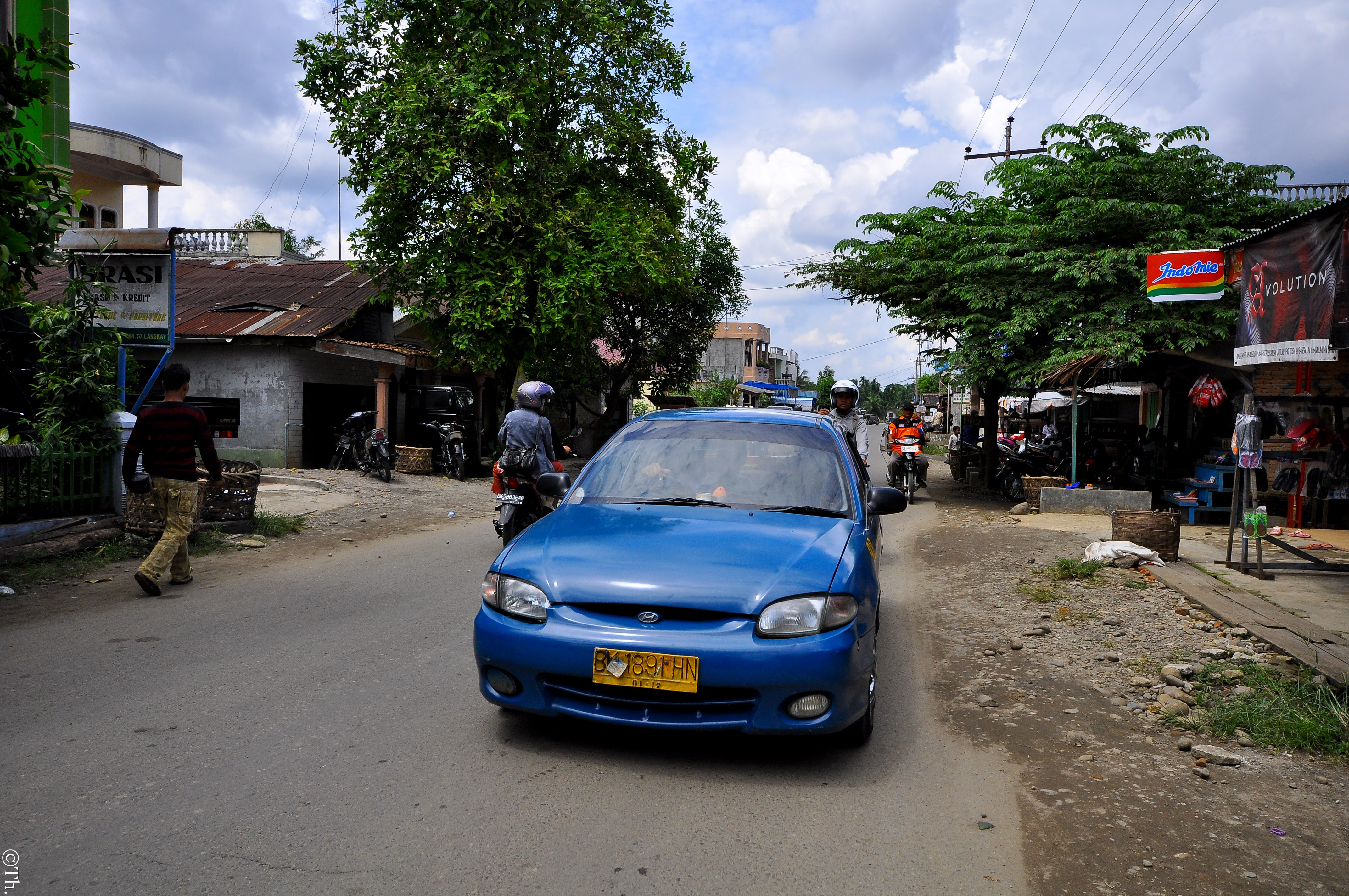 Bimantara Cakra - Hyundai Excel in Sumatra Utara, Indonesia.Designed & Assembled in South Korea , Localized in Indonesia Note : Unable to determine if the car pictured is a genuine Bimantara Cakra. Most units have been swapped out with Hyundai Excel parts over the years due to reliability issues.